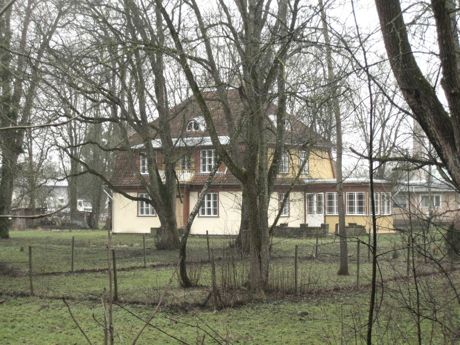 Juuliku villa. Built by Robert Natus in 1927-1929.